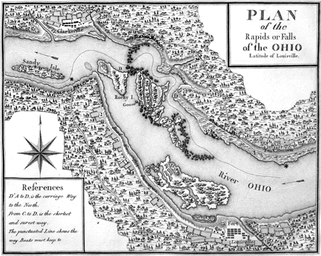 Early map of Corn Island and the Falls of the Ohio River in Kentucky and Indiana